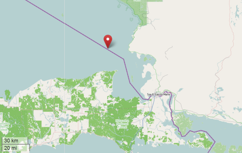 Open Street Map showing the location of the wreck of the SS Edmund Fitzgerald. Ontario is to the right of the image, Michigan is at the left/bottom.